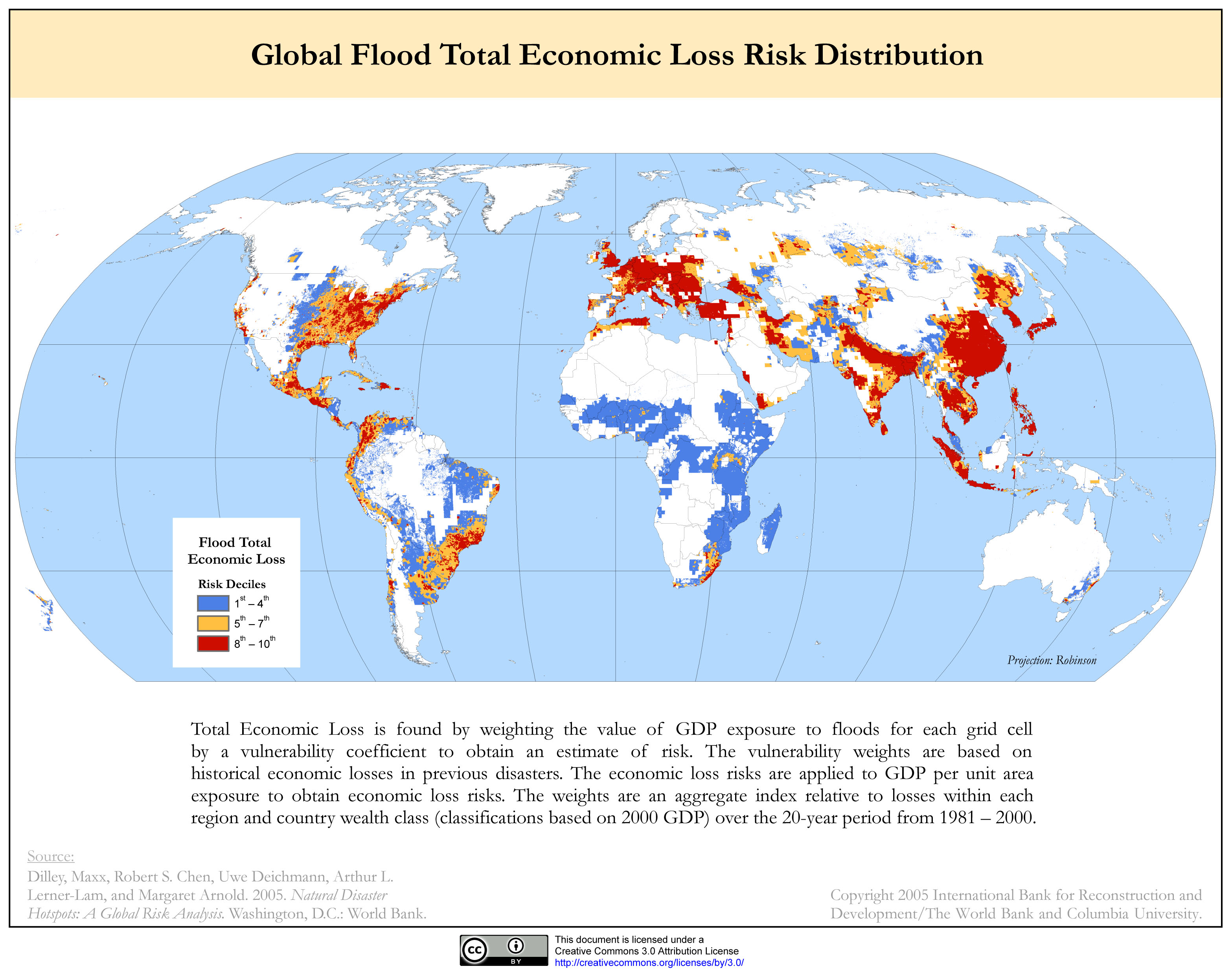 Global Flood Total Economic Loss Risk Deciles